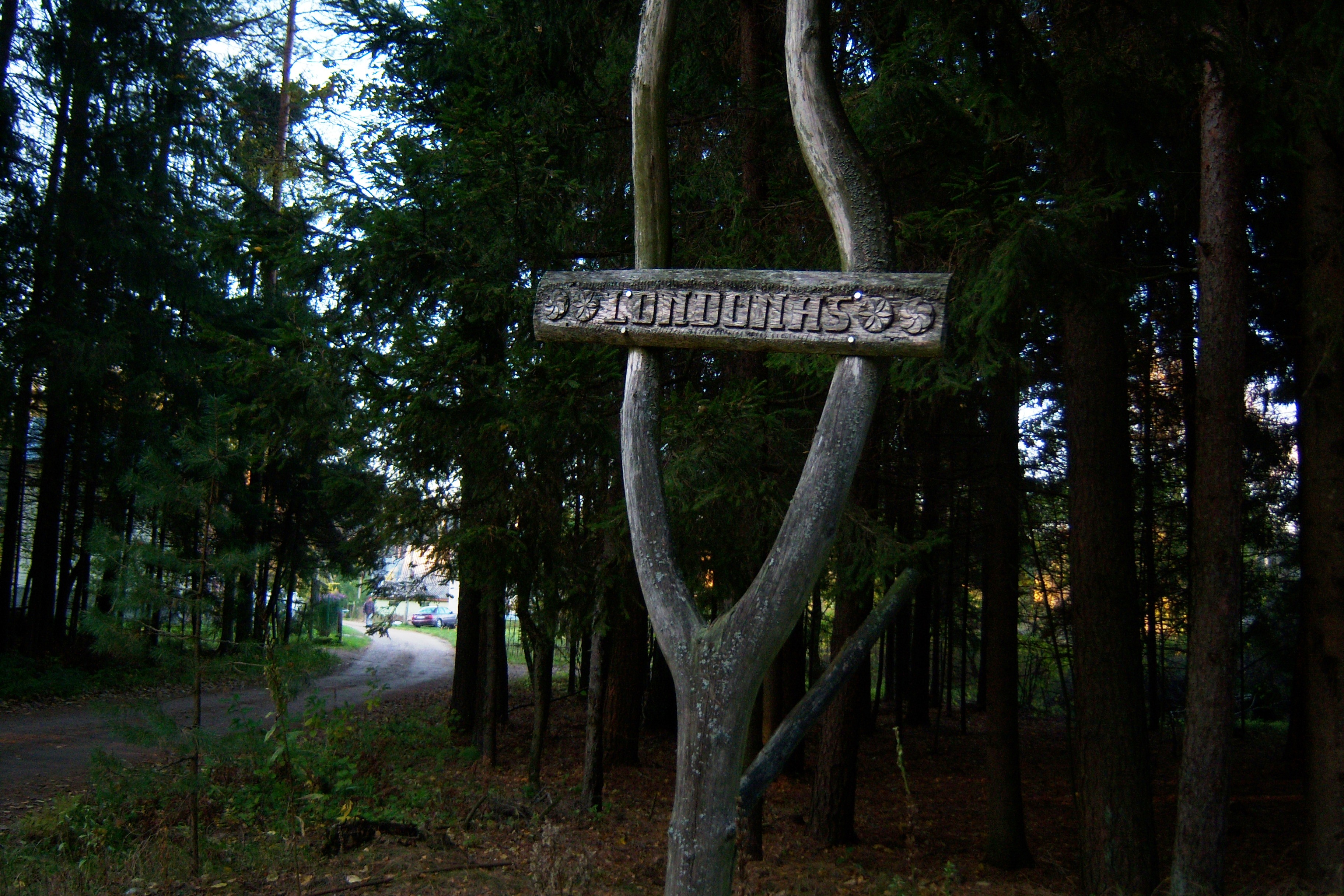 Londonas, Jonava District, Lithuania